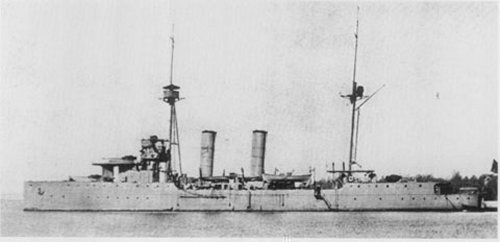 Picture of the Swedish minecruiser HMS Clas Fleming in her original form (1914-1918).